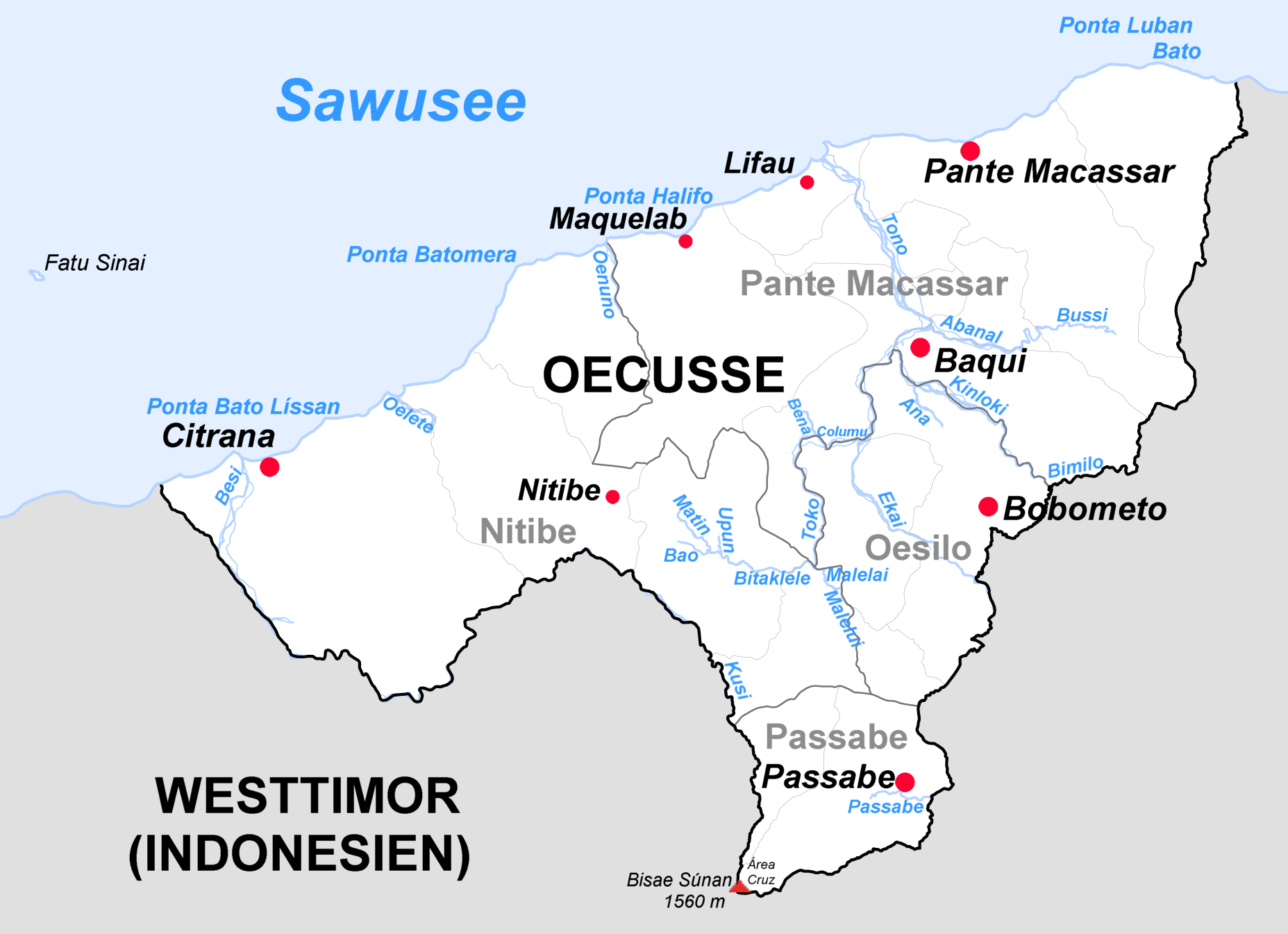 Cities and rivers of district of Oecusse (East Timor).